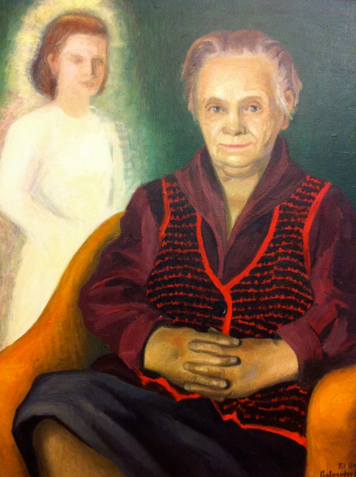 Portrait picture of Una Gudmundsdottir.